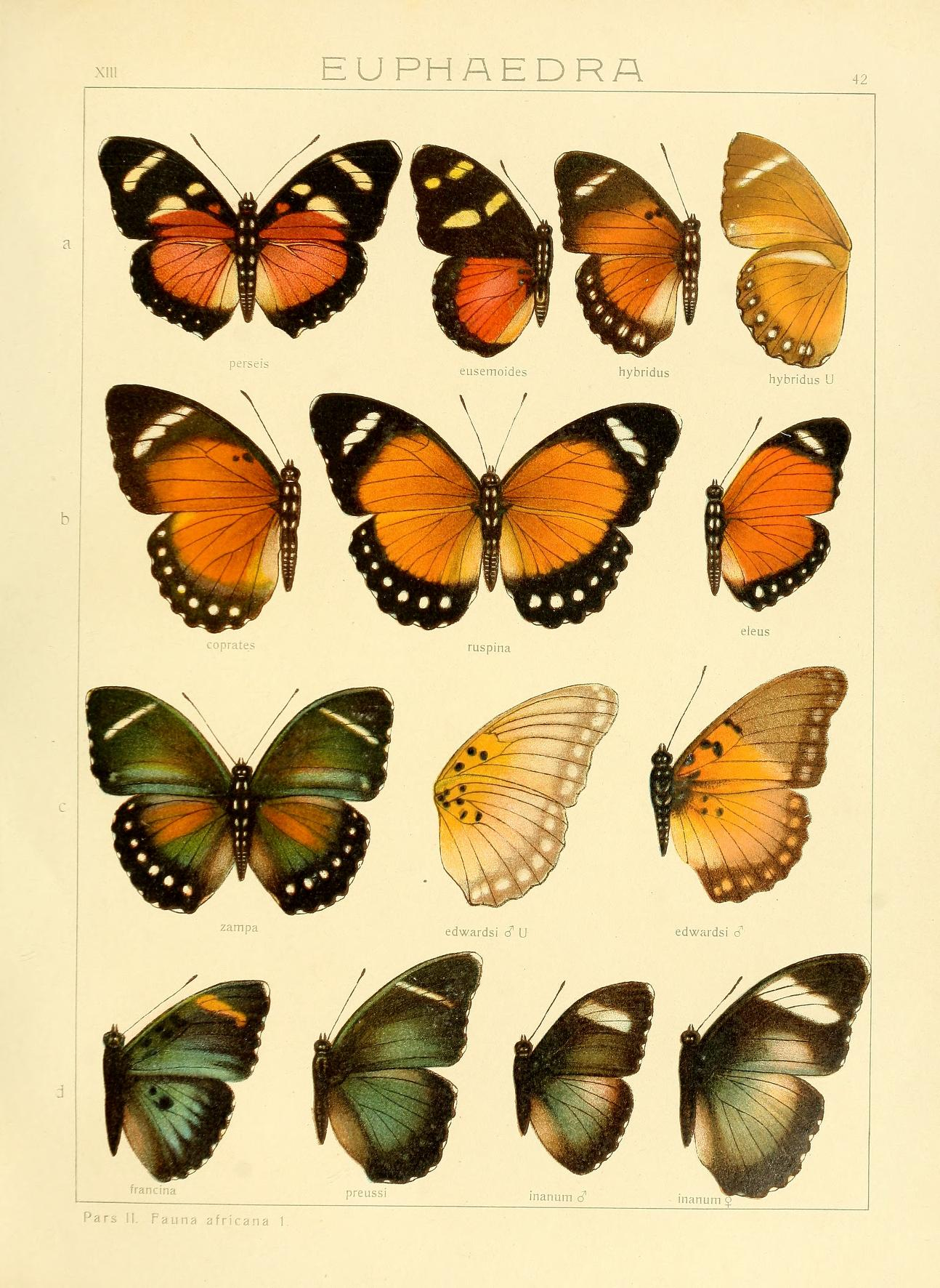 Adalbert Seitz Die Gross-Schmetterlinge der Erde 13: Die Afrikanischen Tagfalter. Plate XIII 42 Euphaedra eleus ab. hybridus Aurivillius, 1898 synonym for Euphaedra hybrida Hecq, 1978